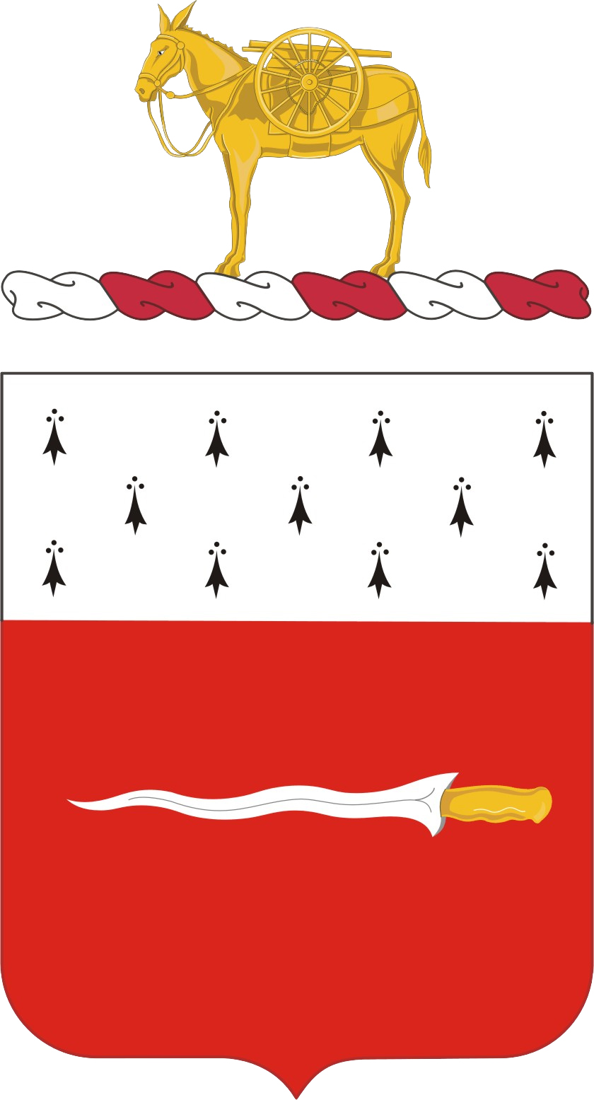 US 2d Field Artillery Regiment Coat of Arms. Contents 1 Blazon 2 Symbolism 3 Licensing 4 Original upload log Blazon Shield: Gules, in fess a Kris Argent hilted Or, a chief ermine. Crest: On a wreath of the colors Argent and Gules, a pack mule supporting a field piece Or Motto: The Second First. Symbolism The shield is scarlet for Artillery. The Kris commemorates service against the Moros during the Philippine Insurrection, while the ermine is from the arms of Brittany where the Regiment served in France during World War I. The crest shows the Regiment's original character as mountain or pack artillery. Obtained from US Army Institute of Heraldry. Image and text from